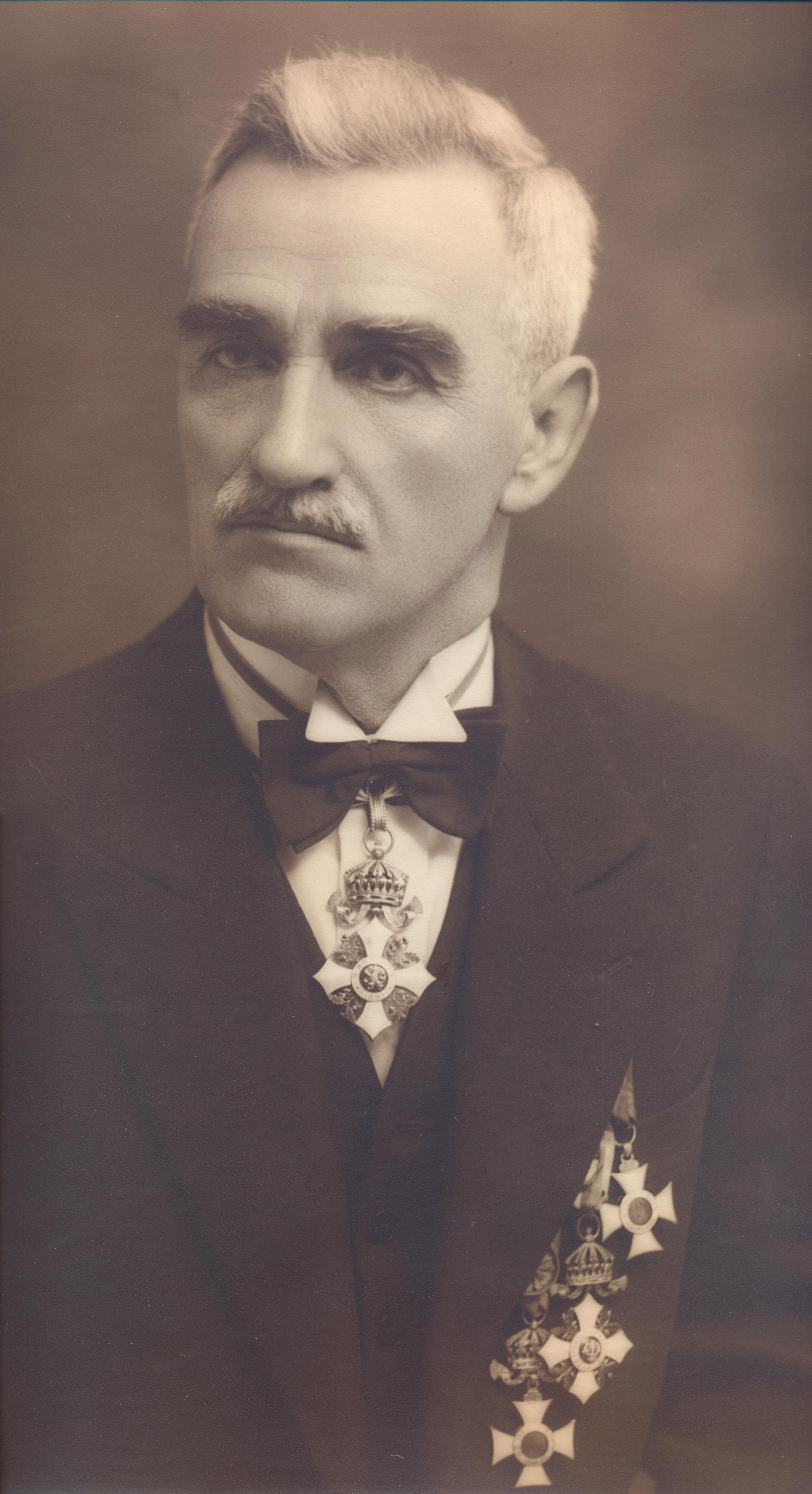 Bulgarian writer Stiliyan Chilingirov, 13.07.1937.